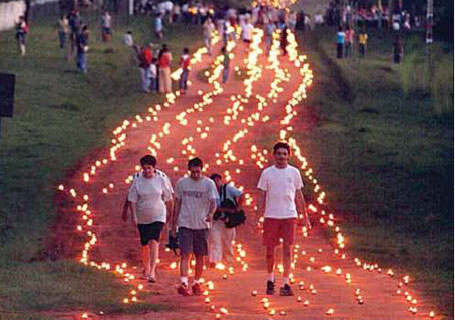 path of the procession of 4km, from the company Tañarandy (San Ignacio), and the place of celebration on the evening of Good Friday